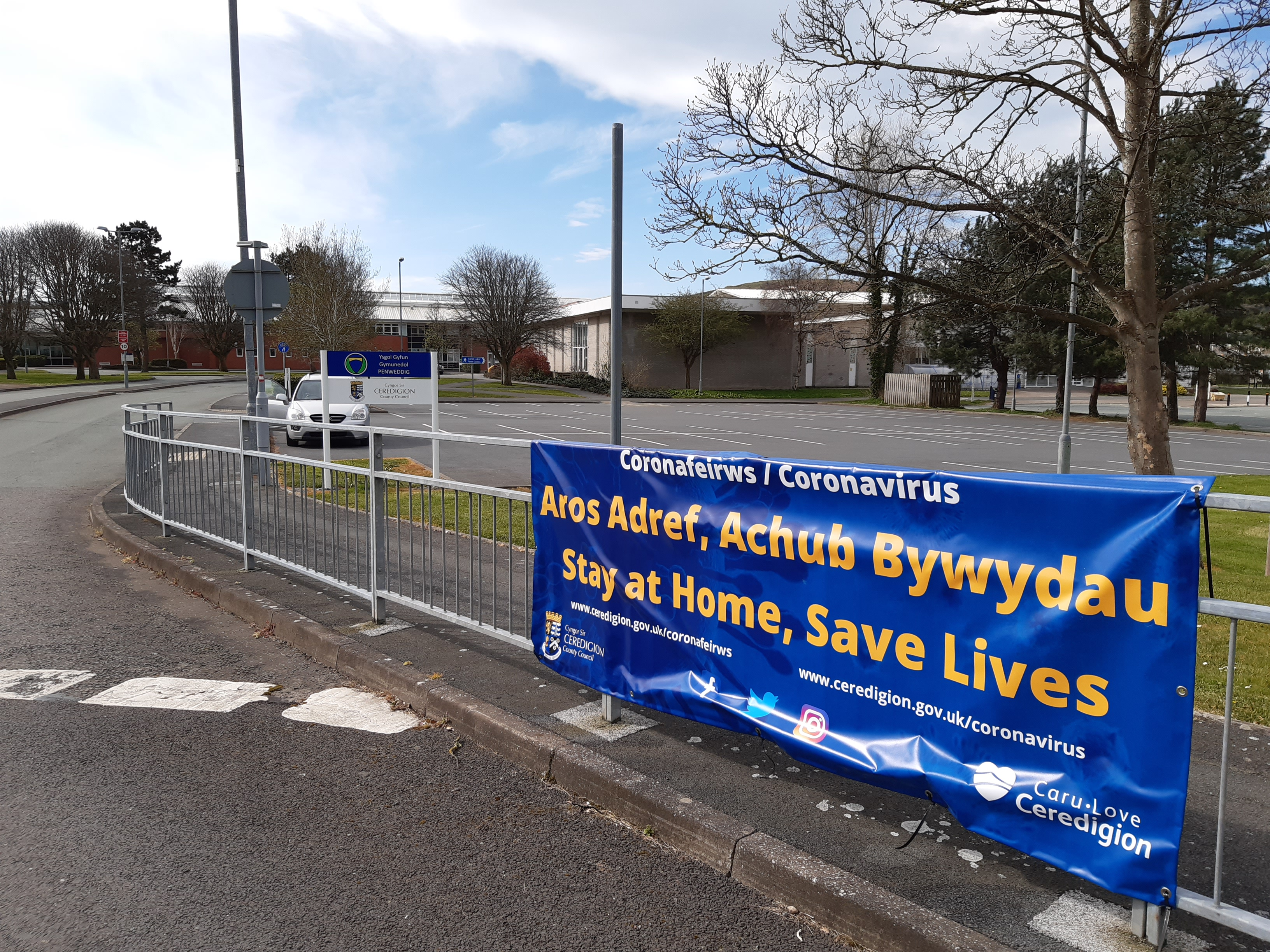 COVID-19 bilingual sign at Penweddig School Aberystwyth